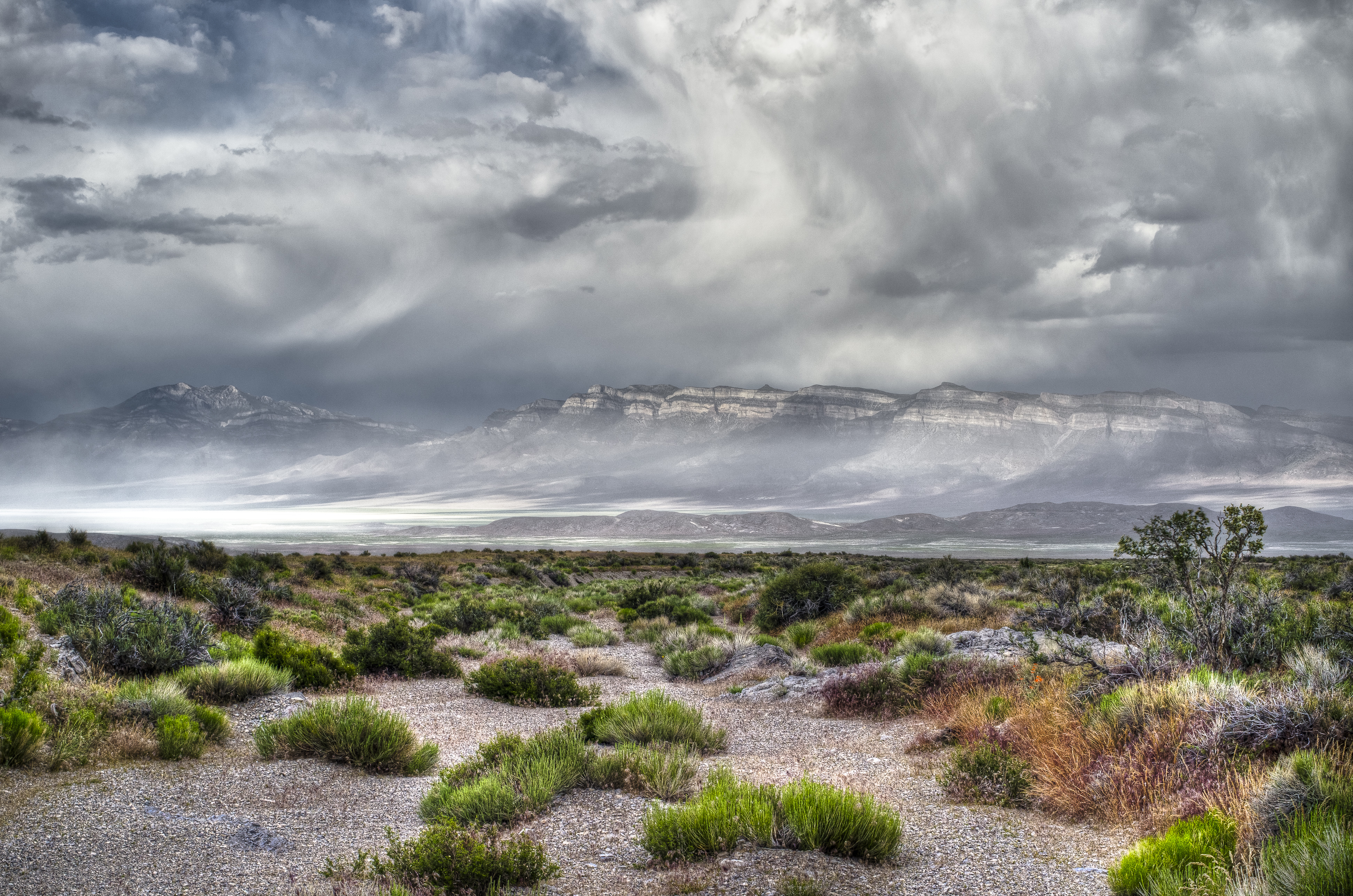 Spring storm in the Great Basin. The Great Basin is located on the Western edge of the Mountain-Prairie Region, and is situated in Oregon, Utah, Nevada and Idaho. It is characterized by basin and range geology with high, dry deserts separated by high mountain ranges. Photo Contest Entry #156 — 1st place photo by Larry Crist.